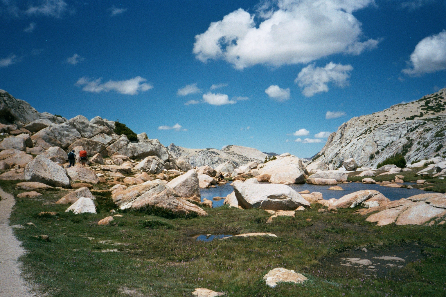 Vogelsang Pass, Yosemite National Park